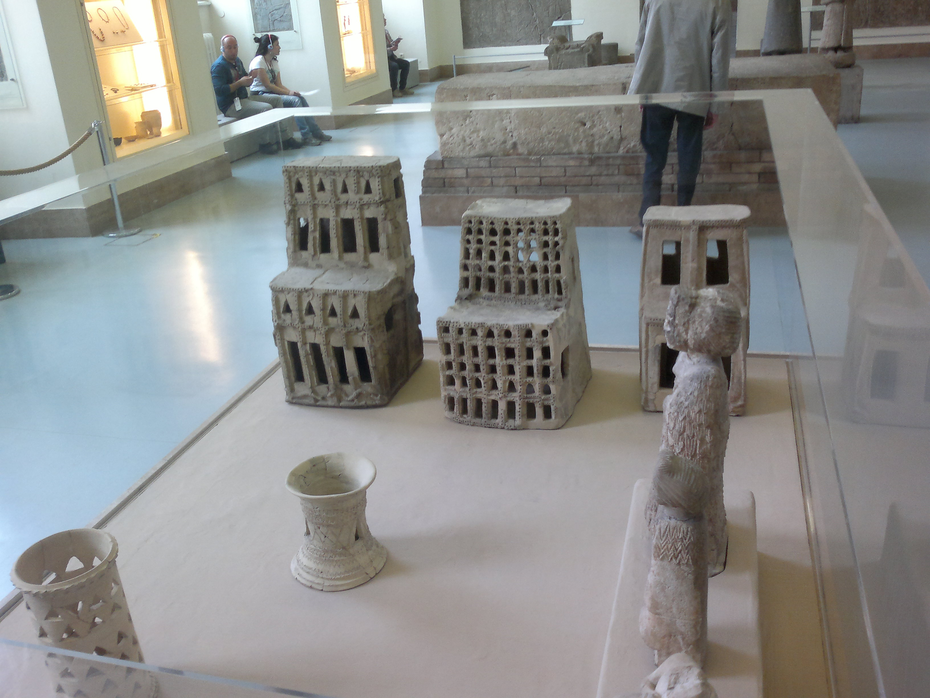 Installation of the archaic Ishtar Temple with temple inventory (censers, stepped altars) and statuettes of supplicants on wall benches. Ashur,c. 2400 BC. Ceramic and alabaster. Pergamon Museum, Berlin